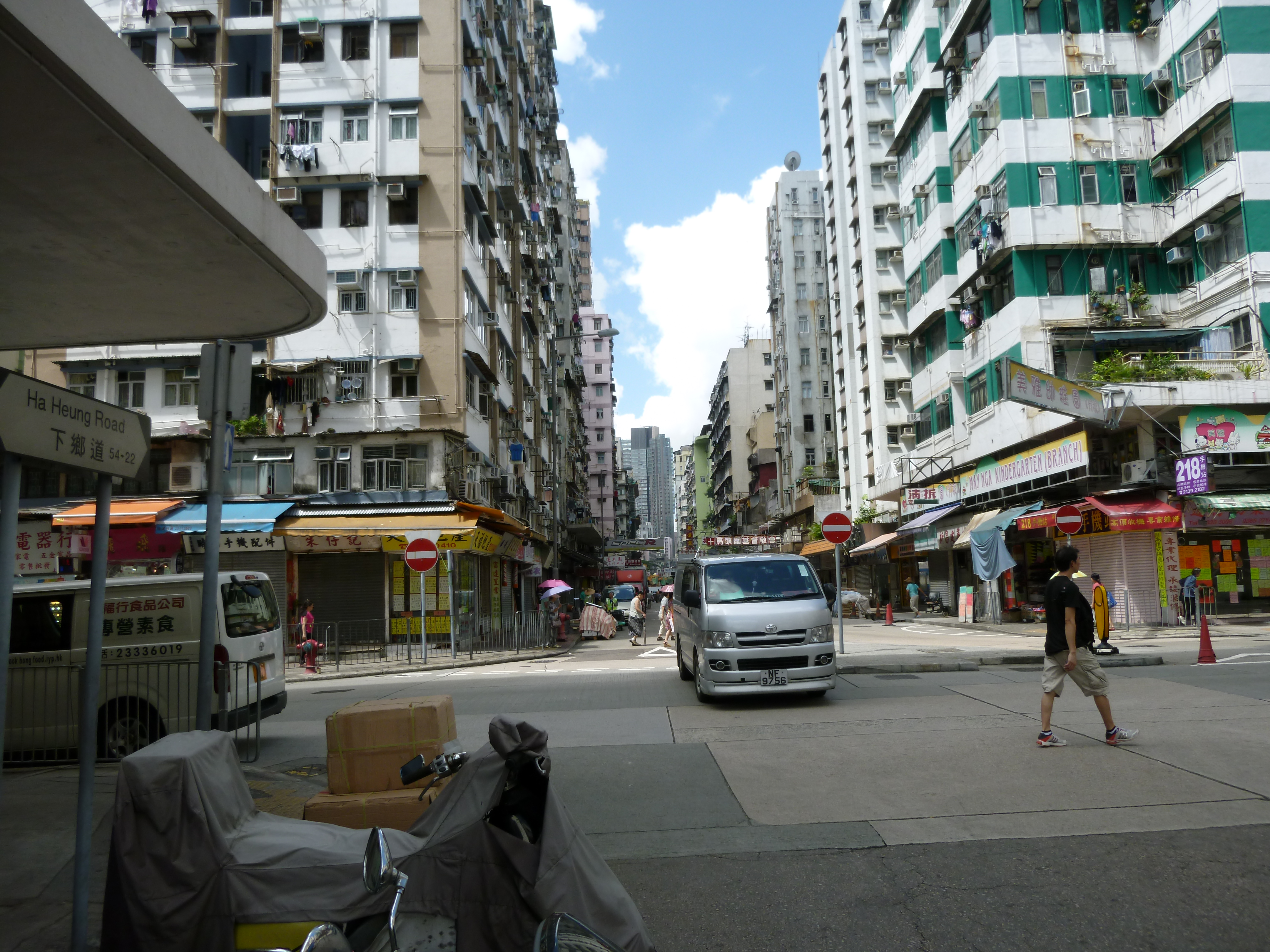 Ha Heung Road (To Kwa Wan, Kowloon, Hong Kong) 中文（香港）: 下鄉道 (香港九龍土瓜灣)